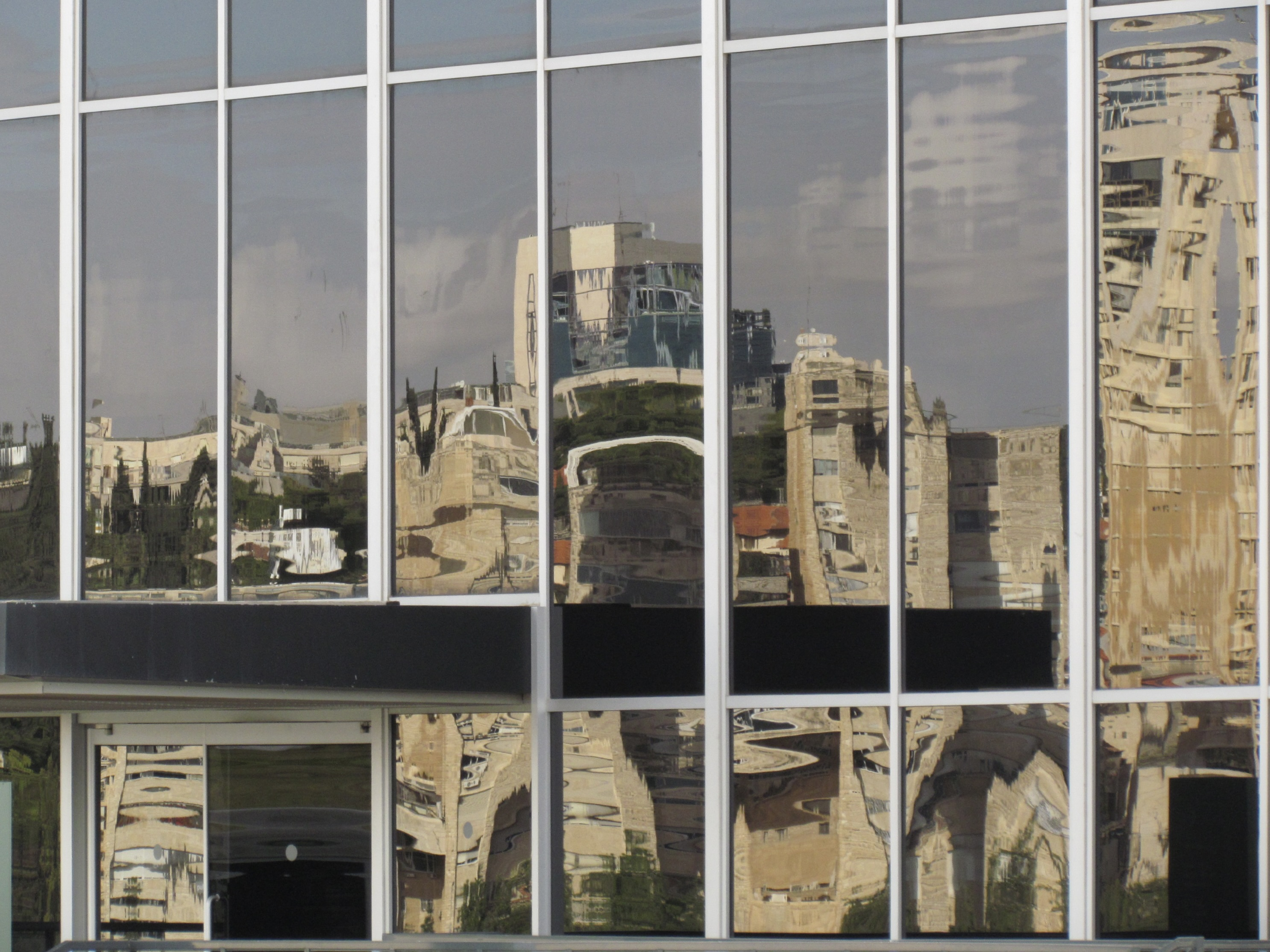 reflection of Jerusalem through a window of Israel Museum, upper gallery entrance - Cities in Israel